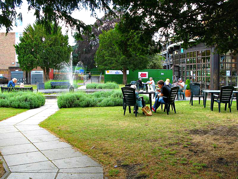 Wallington Library